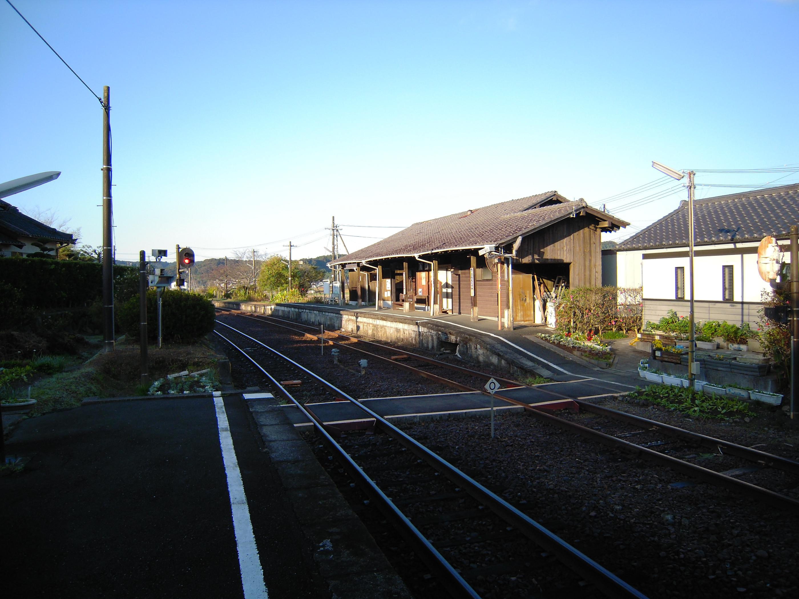 Tenryu-Hamanako railroad company Tohtoumi-Ichinomiya Station